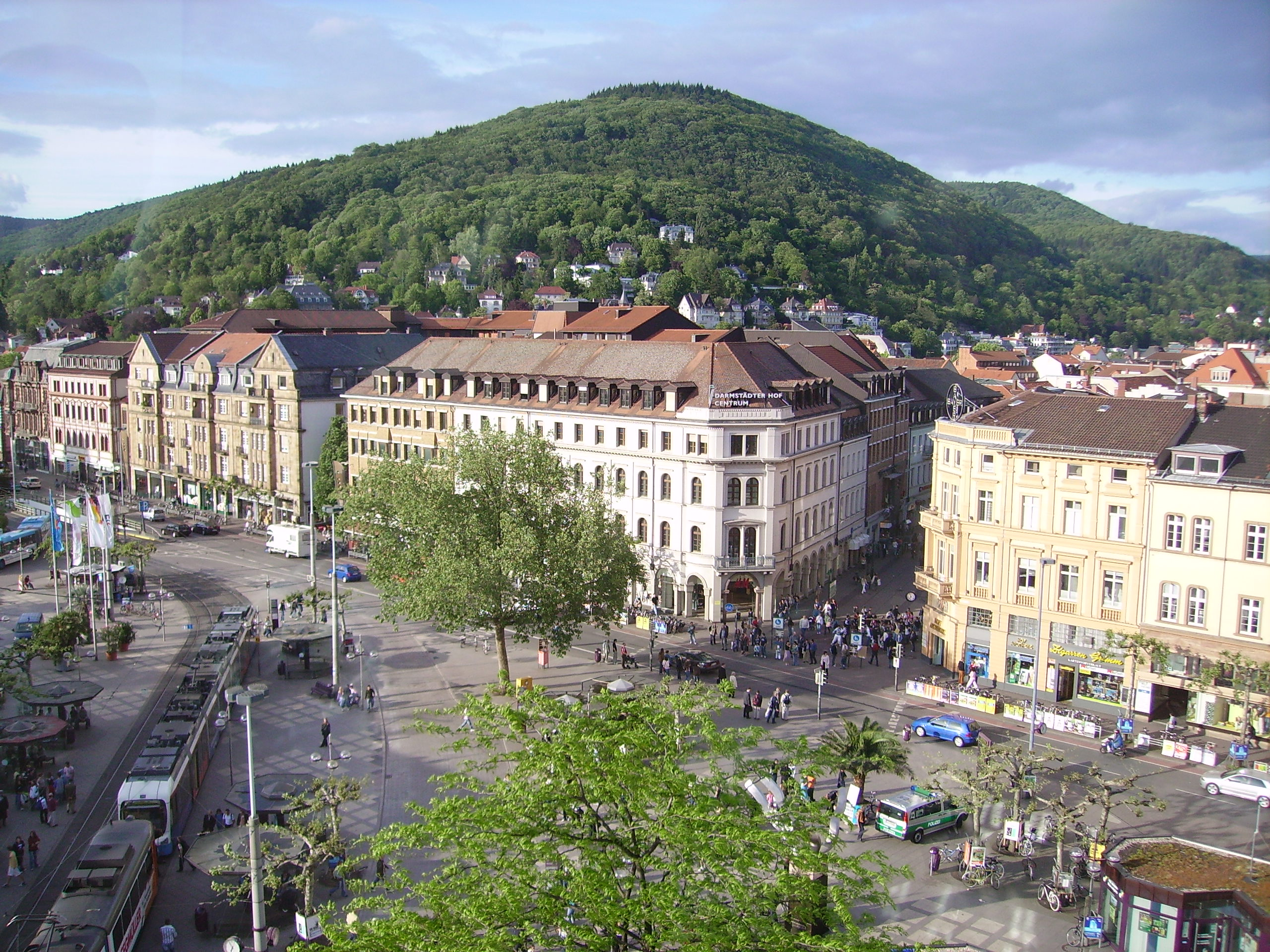 views of Heidelberg, Germany